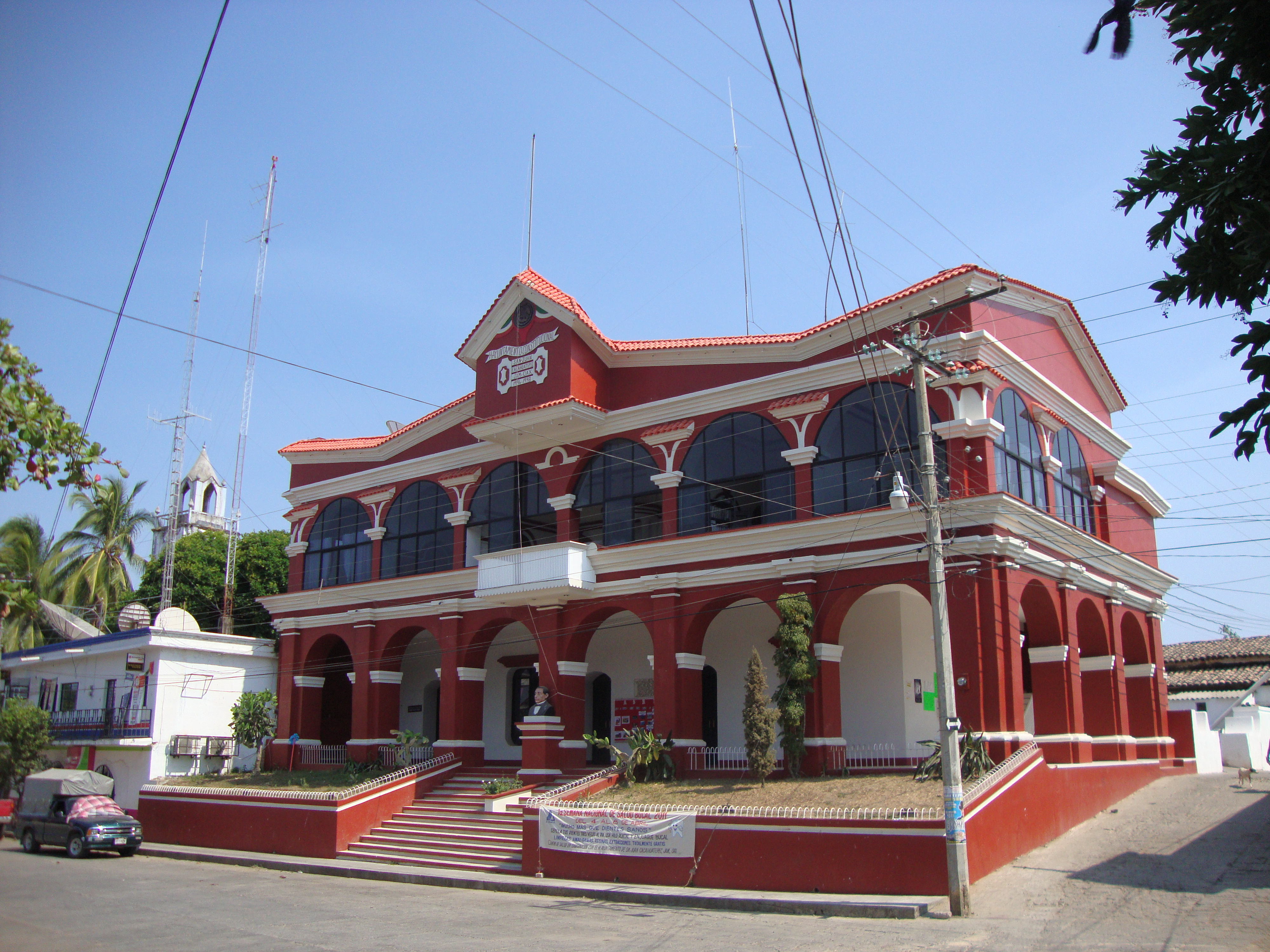 Municipal Palace Of Cacahuatepec